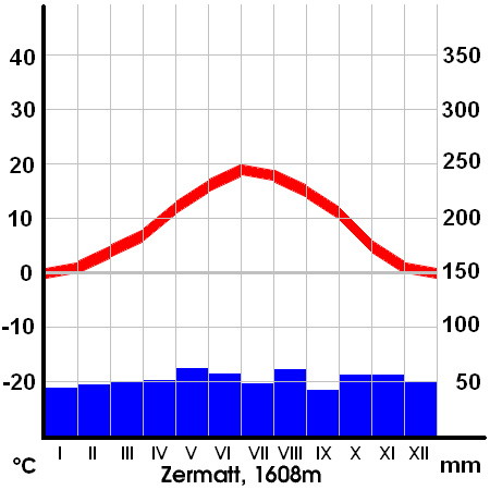 Climate diagram for Zermatt, Switzerland. Max temperature, average rainfall in mm. Data from Climatedata.eu software from Klimagramm